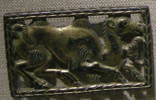 Met, china, plaque with bactrian camel, north china, 2-1st century BC